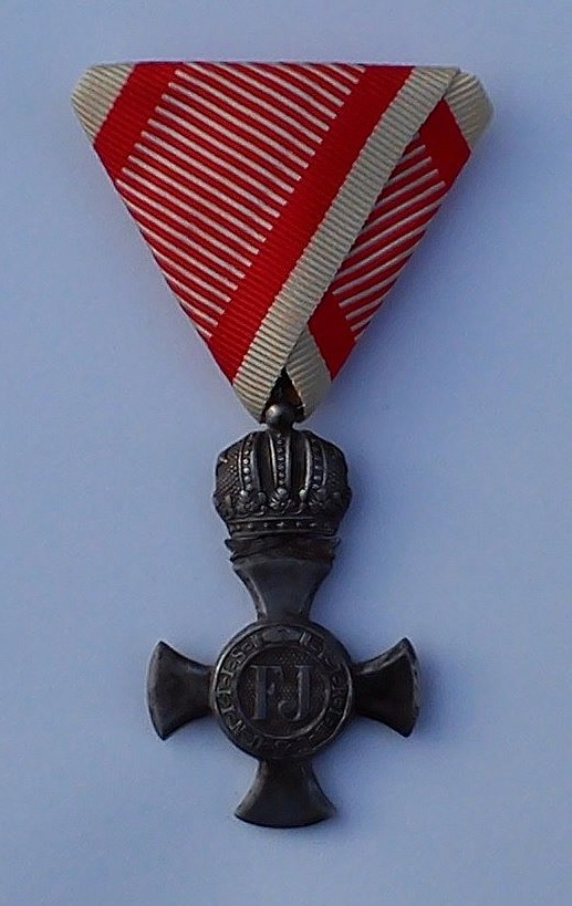 Austrian Iron Cross of Merit with Crown (1916), obverse